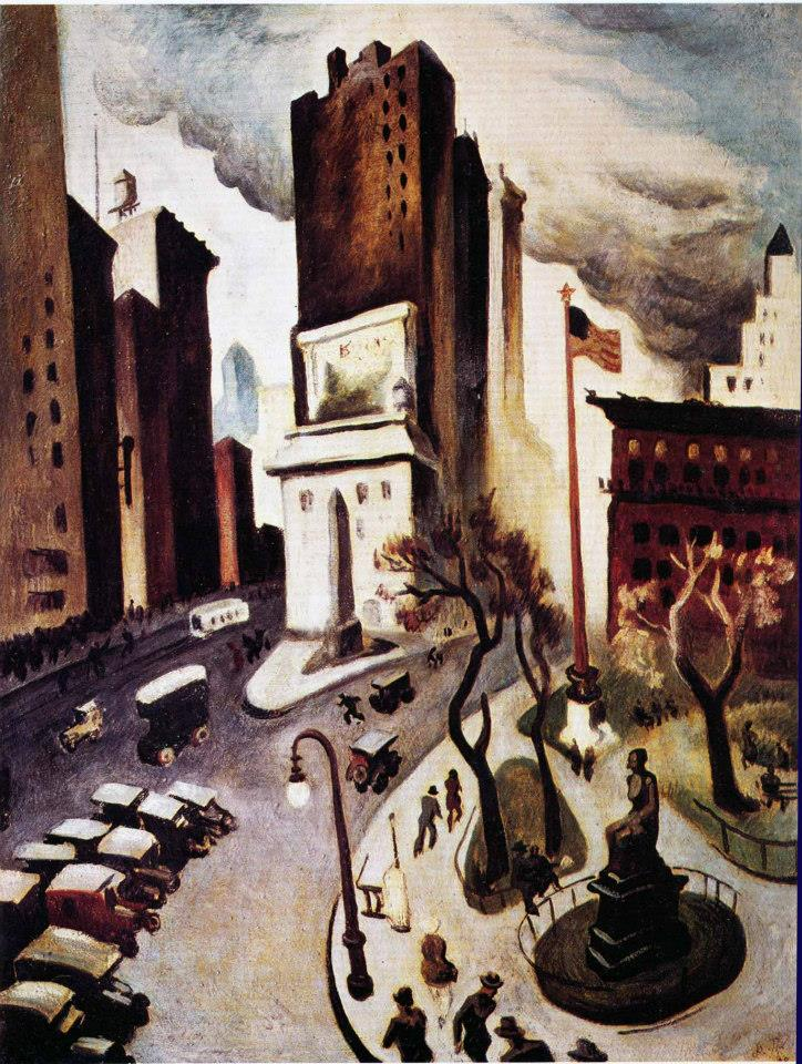 Oil painting of Madison Square Park in New York, City in the early 1920's painted by Thomas Hart Benton. 34" x 25"